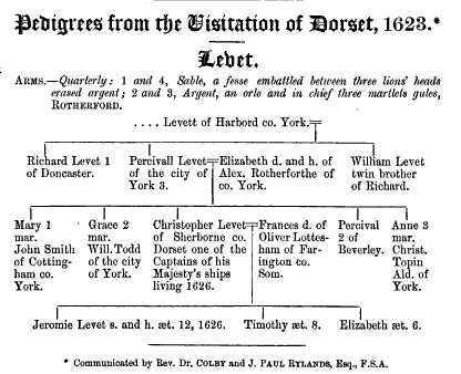 Miscellanea Genealogica et Heraldica, Pedigrees from the Visitation of Dorset, 1623, Levet.